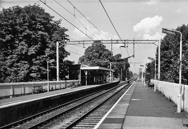 Bramhall Station. View NW, towards Stockport and Manchester; ex-LNW (and NSR) Manchester - Stockport - Macclesfield - Stoke-on-Trent - (Stafford/London) main line. The line was electrified in 1962 and the station is till going strong.